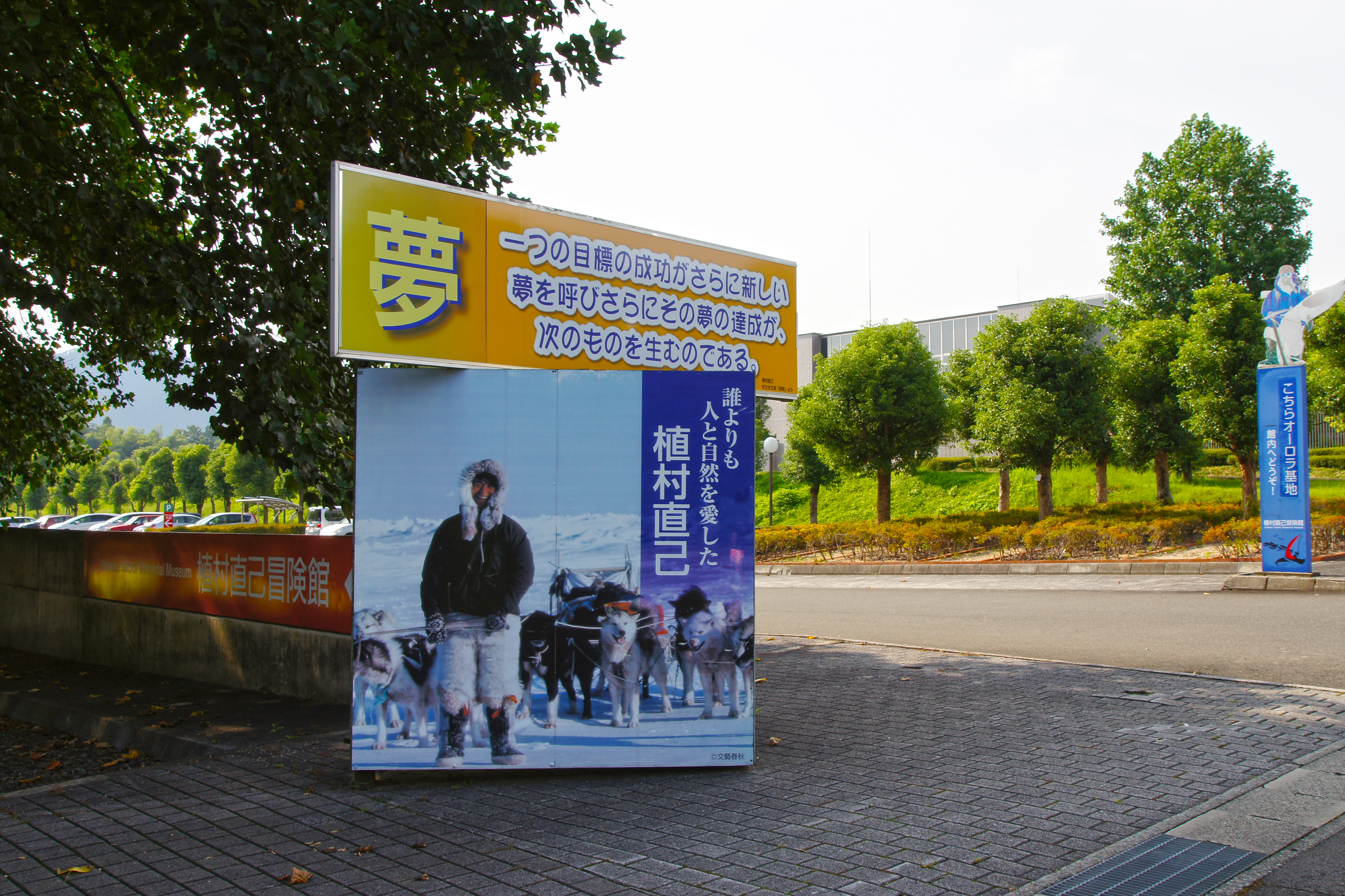 Uemura Naomi Memorial Museum in Kannabe highlands, Toyooka, Hyogo prefecture, Japan.